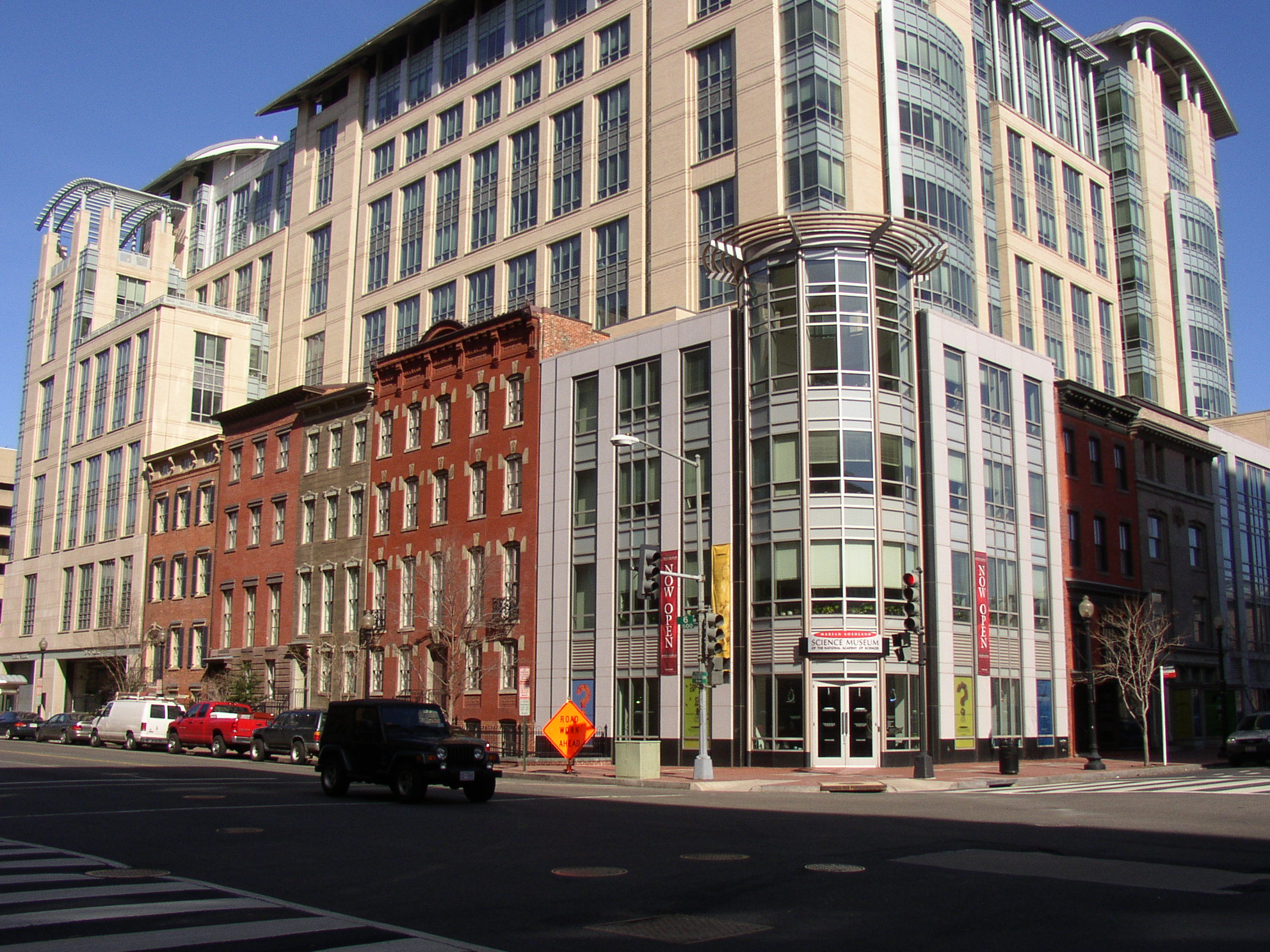 Photo of the Marian Koshland Science Museum in Washington, D.C., USA taken by the uploader on a cold February day in 2007. All rights released. Williamborg 16:32, 25 February 2007 (UTC)